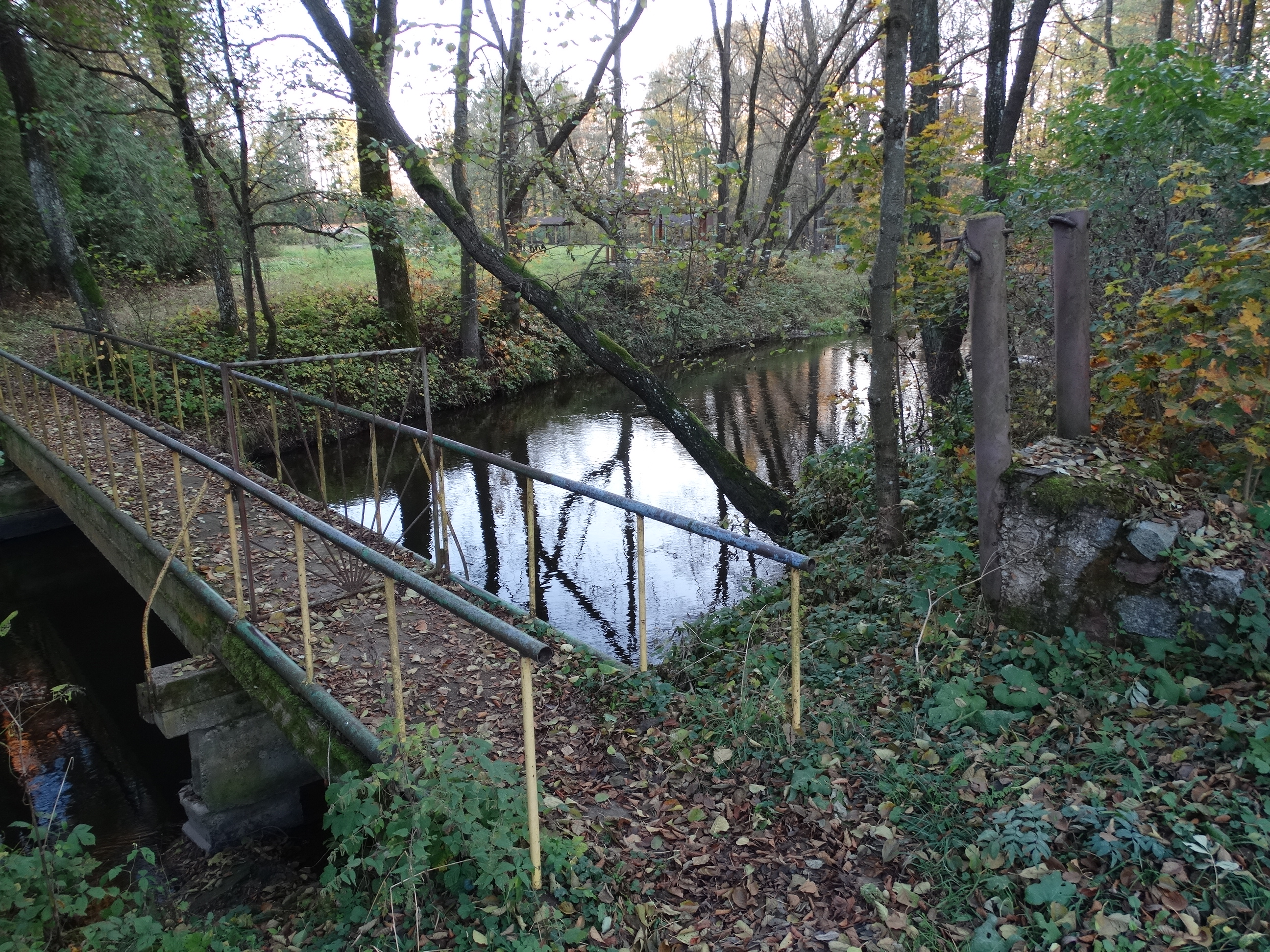 Dovinė River Park, footbridge, Marijampolė municipality, Lithuania